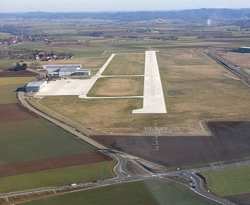 Final approach to Schwäbisch Hall Airport, RWY 10